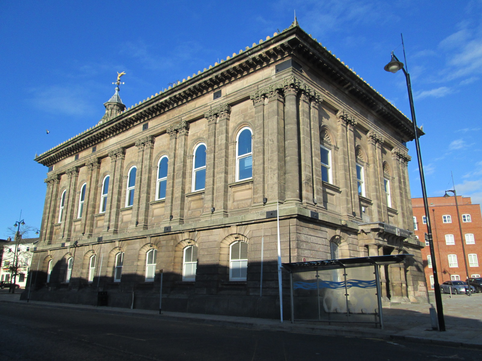 The Old Town Hall, in Burslem, Staffordshire, seen from the south-east.